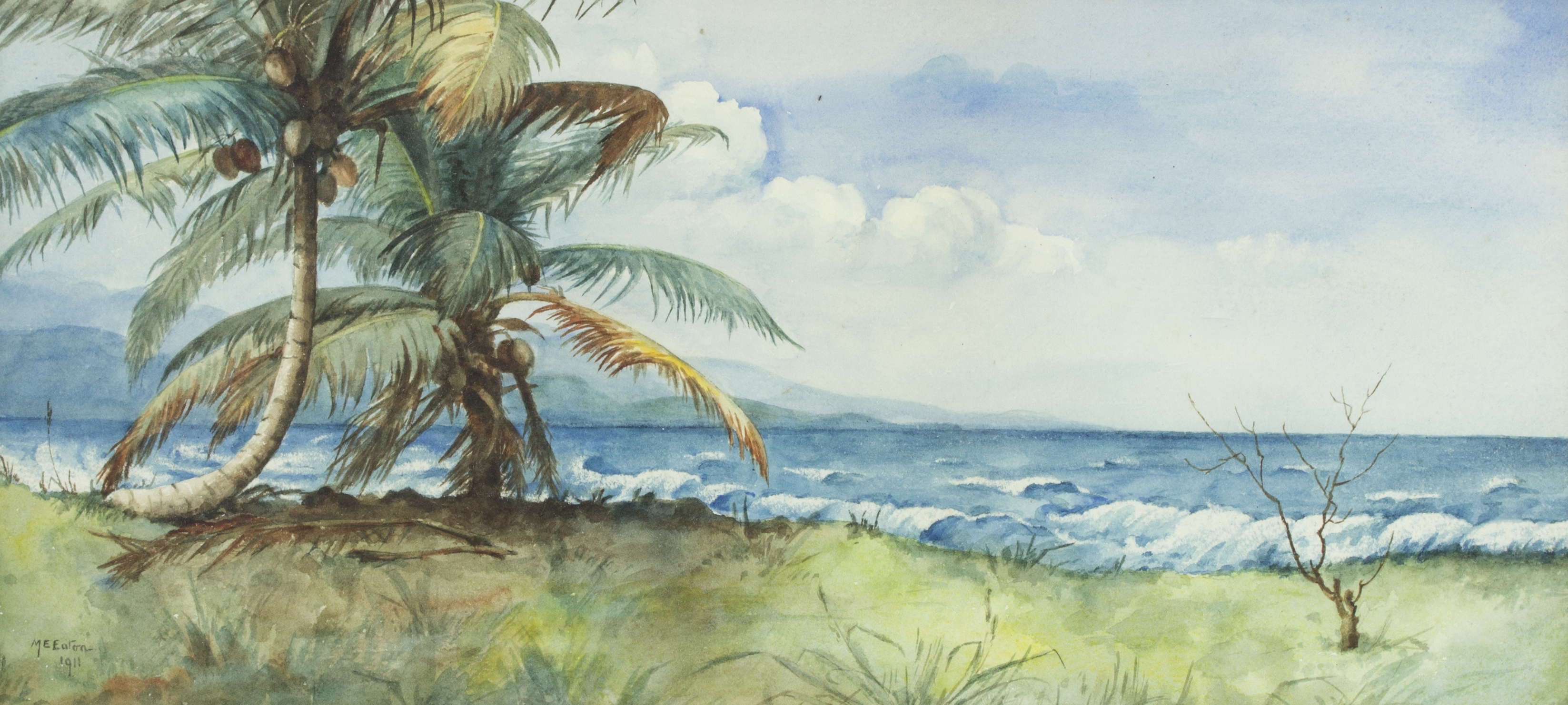 Mary Emily Eaton (1873-1961), 'Jamaican Shoreline'/signed and dated 1911/watercolour, 16cm x 34cm